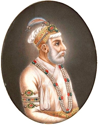 Emperor Alamgir II. One of twelve miniatures depicting Mughal rulers of India; head and shoulders in profile. Materials and Techniques:Watercolour on ivory in narrow gilt frames. Victoria and Albert Museum number:643-1870. Dimensions Length: 19.1 cm, Width: 8.8 cm.